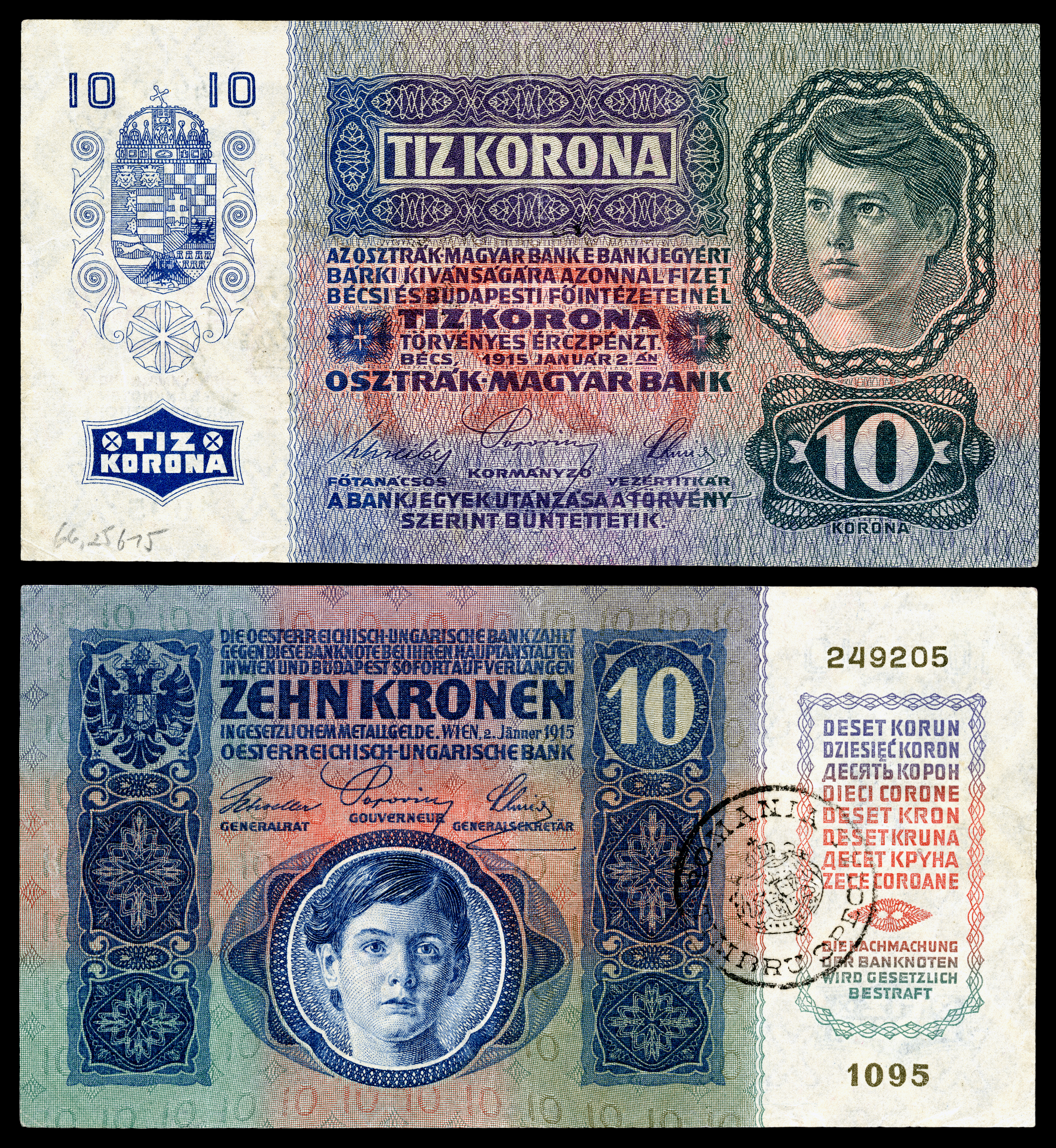 Kingdom of Romania, 10 kronen, 1919 (Provisional issue) with over-stamp (using a 1915 Austro-Hungarian note).The 1919 provisional issue of Romanian banknotes used an earlier Austro-Hungarian Bank issue. The black circular over-stamp generally on the front side served as validation of legal tender status in the Kingdom of Romania.